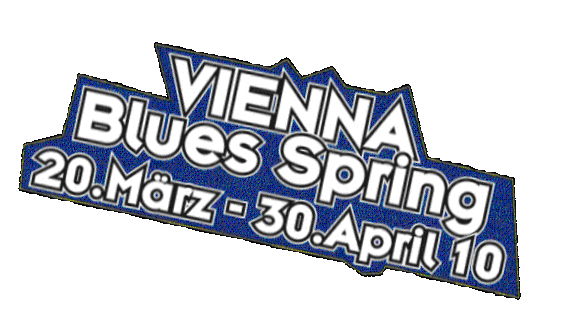 Logo Vienna Blues Spring